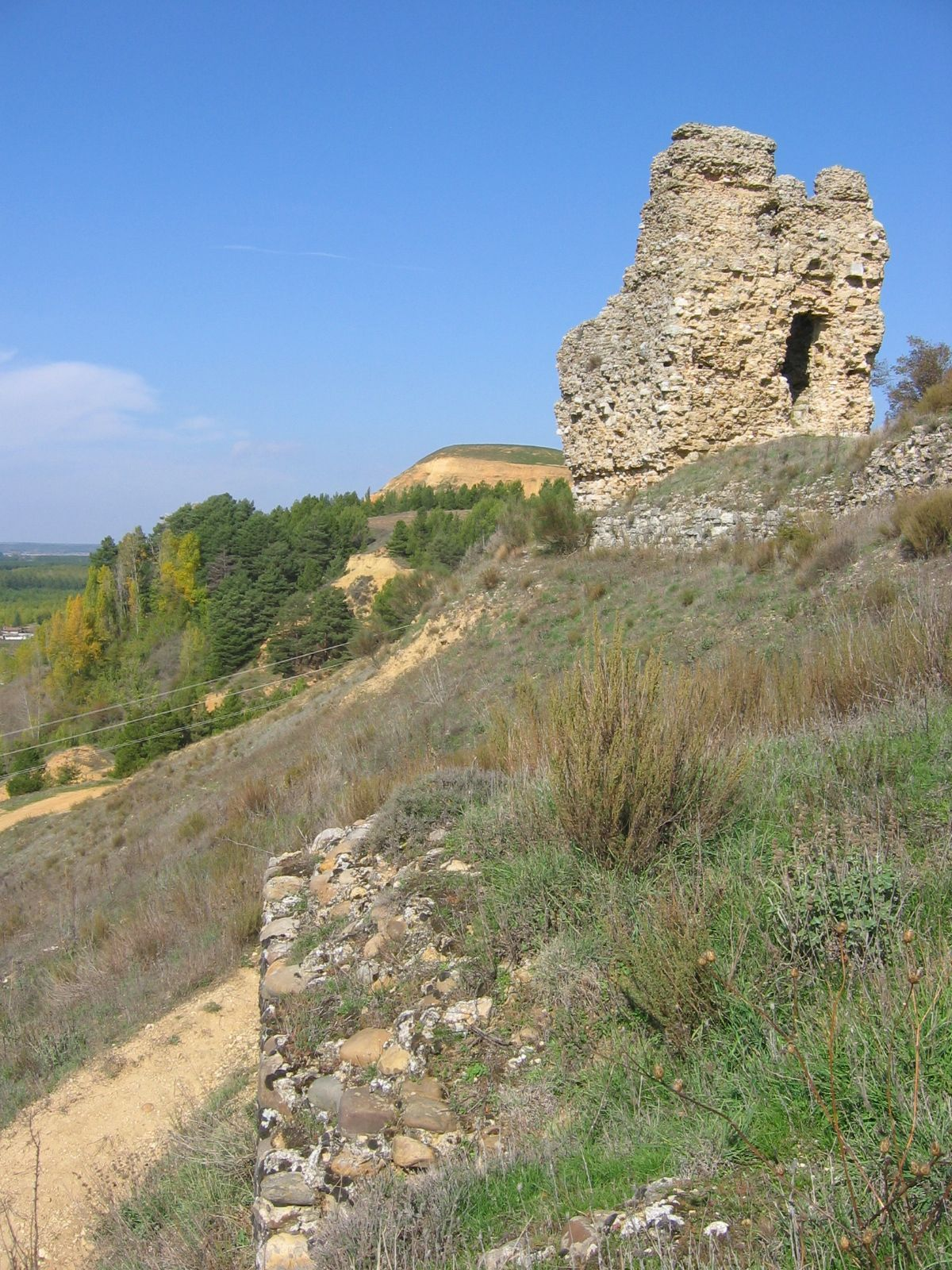 Castillo de Saldaña